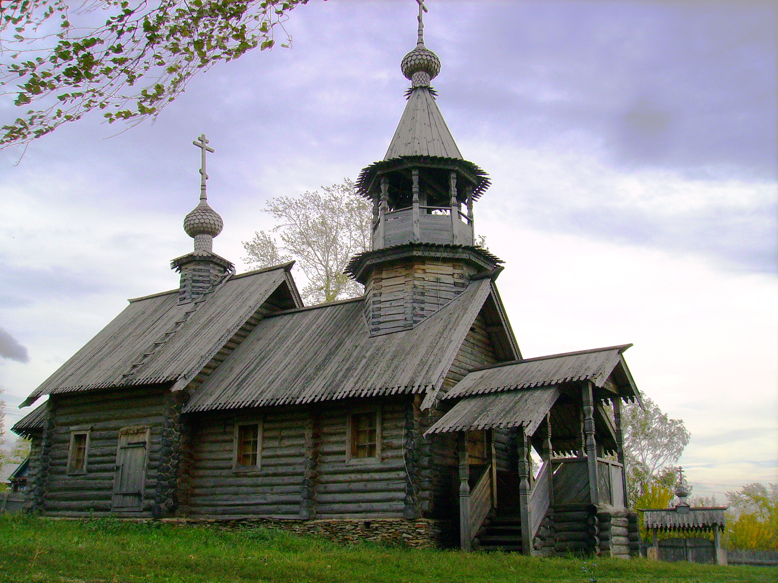 Bolshoye Boldino. St. Michael the Archangel Chapel